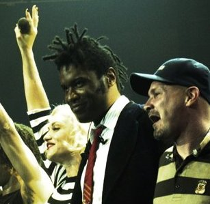 Gabrial McNair next to Gwen Stefani at a curtain call on the Harajuku Lovers Tour